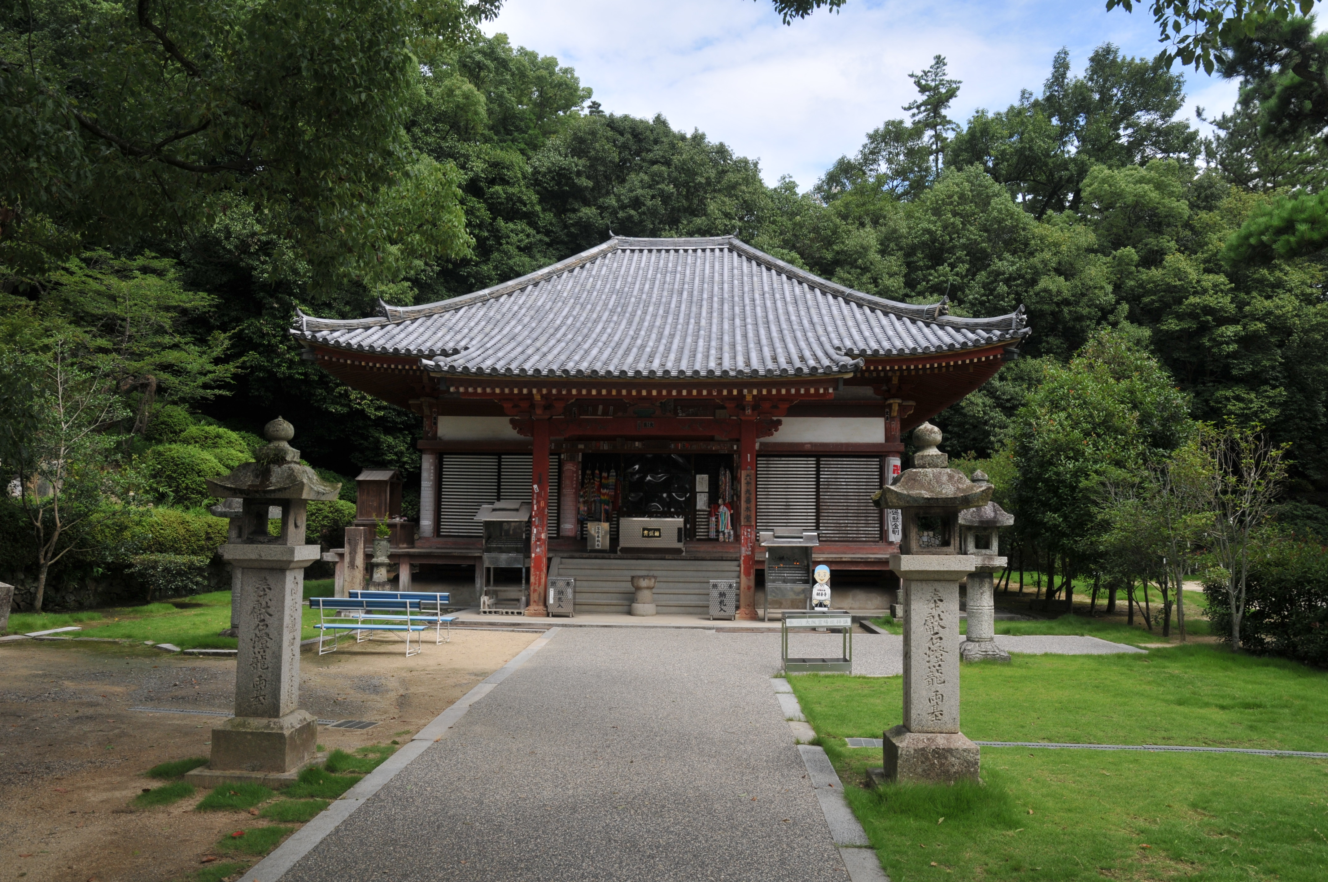 Hondō (Main hall, Japan's national important cultural property) of Kan'on-ji temple, Kan'onji City, Kagawa, Japan